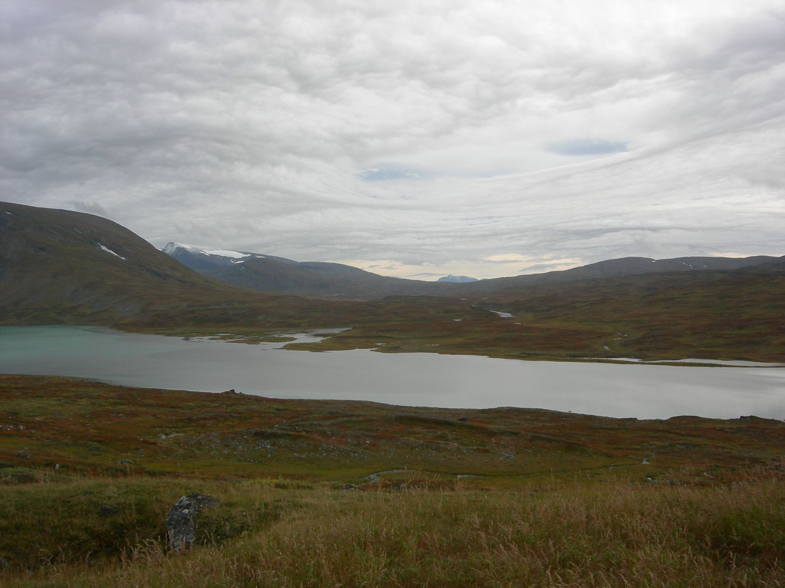 Alggajavvre (Alkajaure) Lake in Sarek/Padjelanta National Parks, Sweden, seen from Alkavare kapell